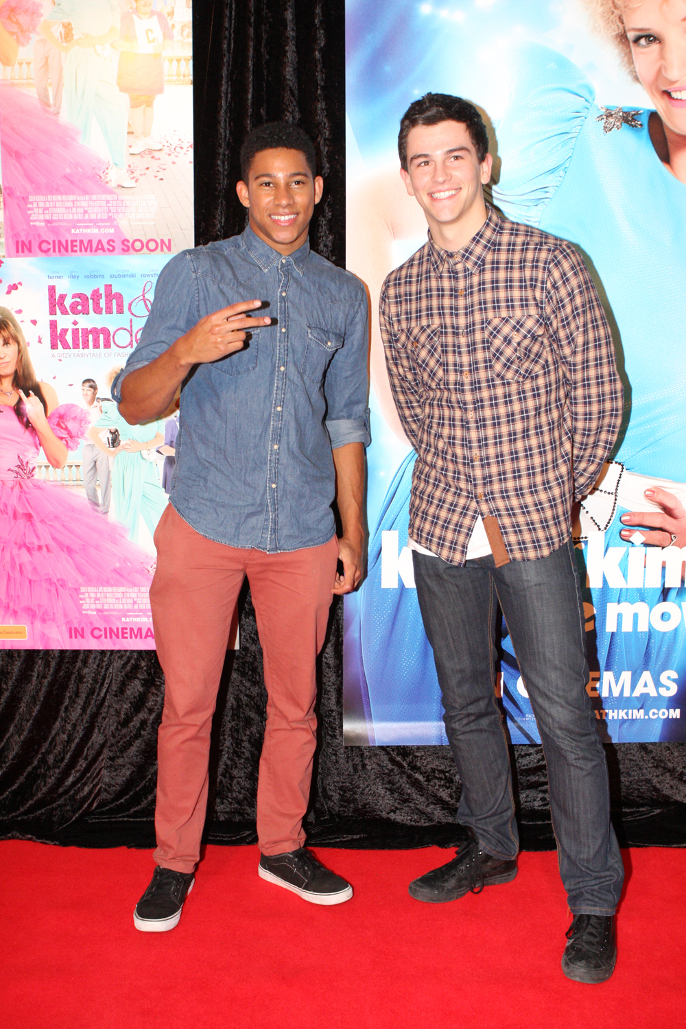 Kath & Kimderella movie premiere at Entertainment Quarter; Sydney, Australia Tonight the Australian "foxy moron" (Kath & Kim lingo) film enjoyed its Australian premiere at Entertainment Quarter in the shadow of Fox Studios Australia, Moore Park. The Kath & Kim franchise is well established and its usually a case of you either love them or hate them. Tonight there were hundreds of lovers of course. Some passionate fans dressed up as their idols - including some grown men in K&K drag. The girls at the premiere switched in and out of character, as they often do in news media interviews. The Flick... Kath, Kim and the latter's daggy offsider, Sharon (Magda Szubanski) are soon shipped off to Papilloma, a bankrupt principality in Italy, where the monarch, King Javier (Rob Sitch) mistakes Kath for a wealthy noble and plans to seduce her, while his son fixates on Kim as a princess. Plot... Fountain Lakes’ foxiest ladies turn more than just heads when they go on an OS trip and end up being the centre of their very own fairytale. Starring: Jane Turner, Gina Riley, Magda Szubanski, Glenn Robbins & Peter Rowsthorn. Director: Ted Emery Kath & Kimderella opens nationally Thursday, September 6. Websites Kath & Kimderella official website Kath & Kim official website Roadshow Films Eva Rinaldi Photography Flickr Eva Rinaldi Photography Music News Australia